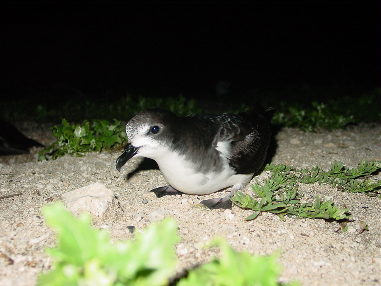 Bonin Petrel (Pterodroma hypoleuca), Tern Island, French Frigate Shoals.